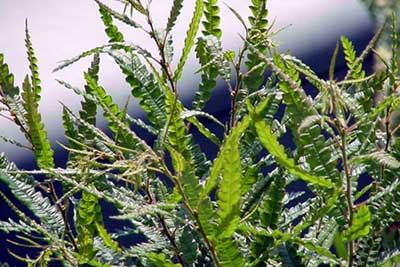 Comptonia peregrina